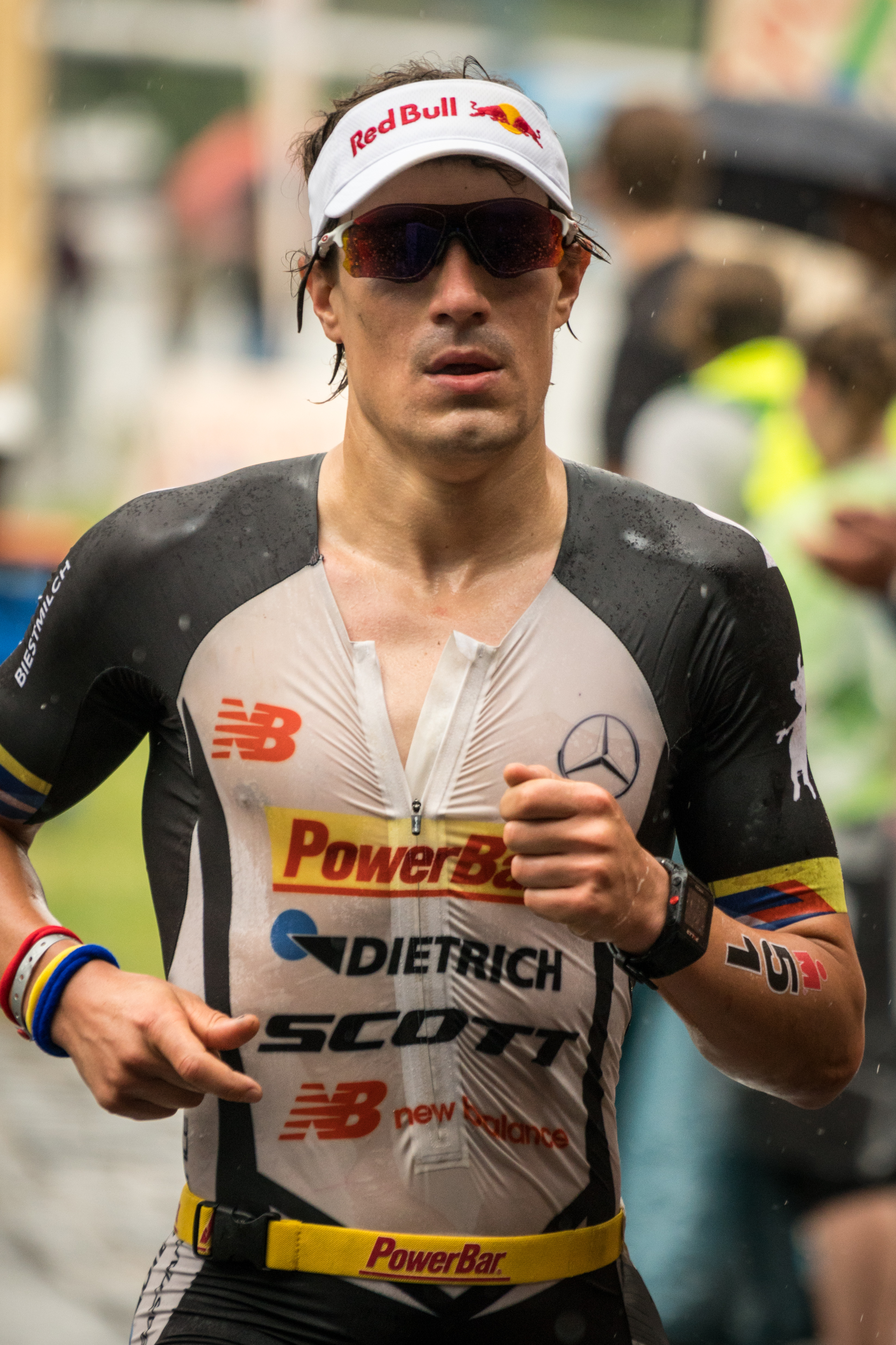 Sebastian Kienle at the 2016 Ironman European Championship in Frankfurt am Main.